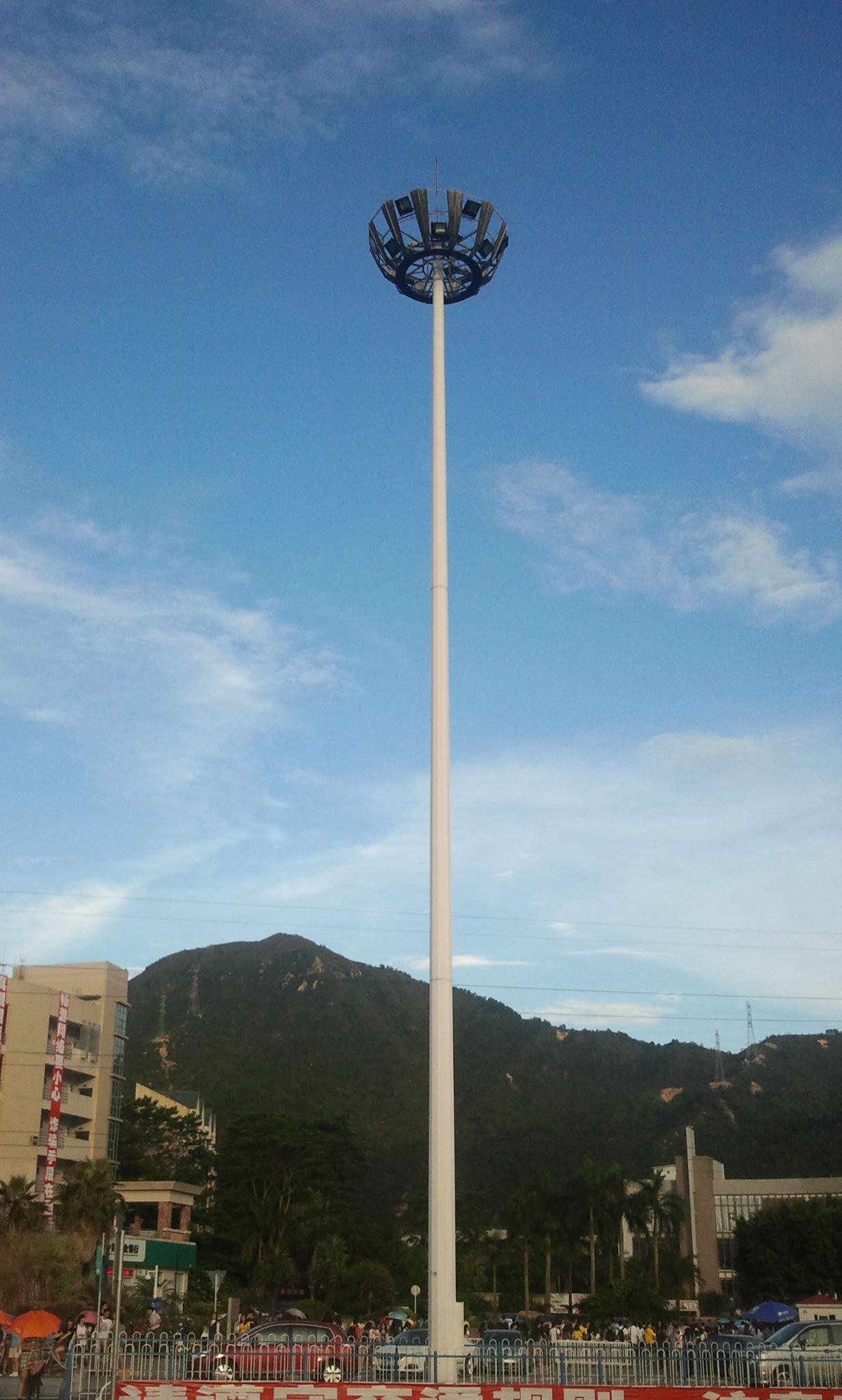 Street light in front of the gate